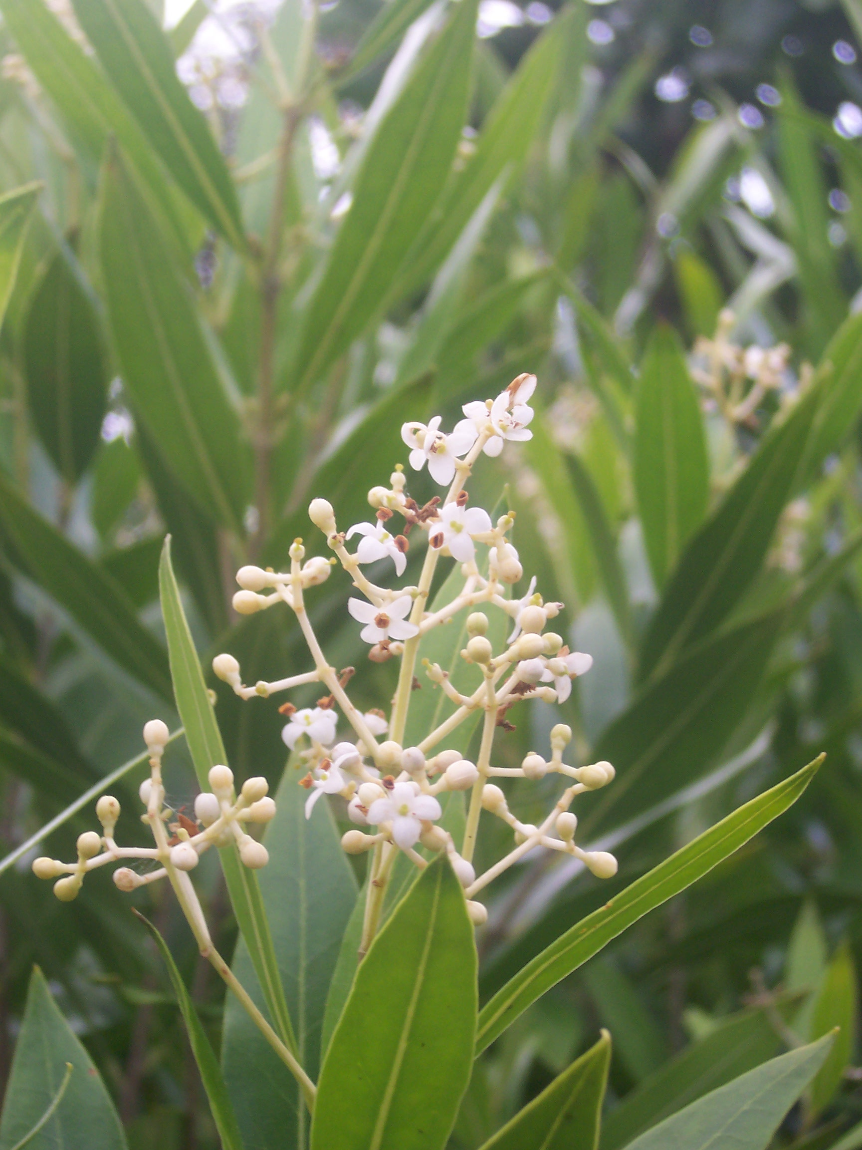 flowers of Olea lancea on Rodrigues island (Grande Montagne Reserve)